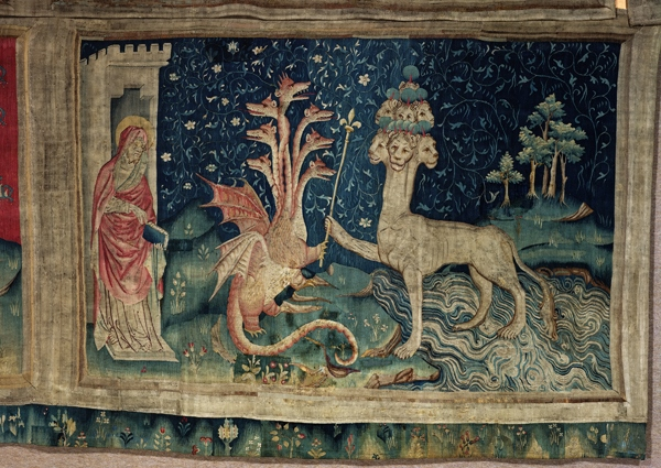 Château d'Angers; Angers; Pays de la Loire, Maine-et-Loire; France; Tenture de l'Apocalypse; no 40, La bête de la mer; Cultural heritage; Cultural heritage|Tapestry; Europeana; Europe|France|Angers; Hennequin de Bruges (Jan Bondol en flamand); connu également sous les noms de Jean de Bruges ou de Jean de Bondol ou encore Jean de Bandol; ; Ref.: PMa_ANG036_F_Angers